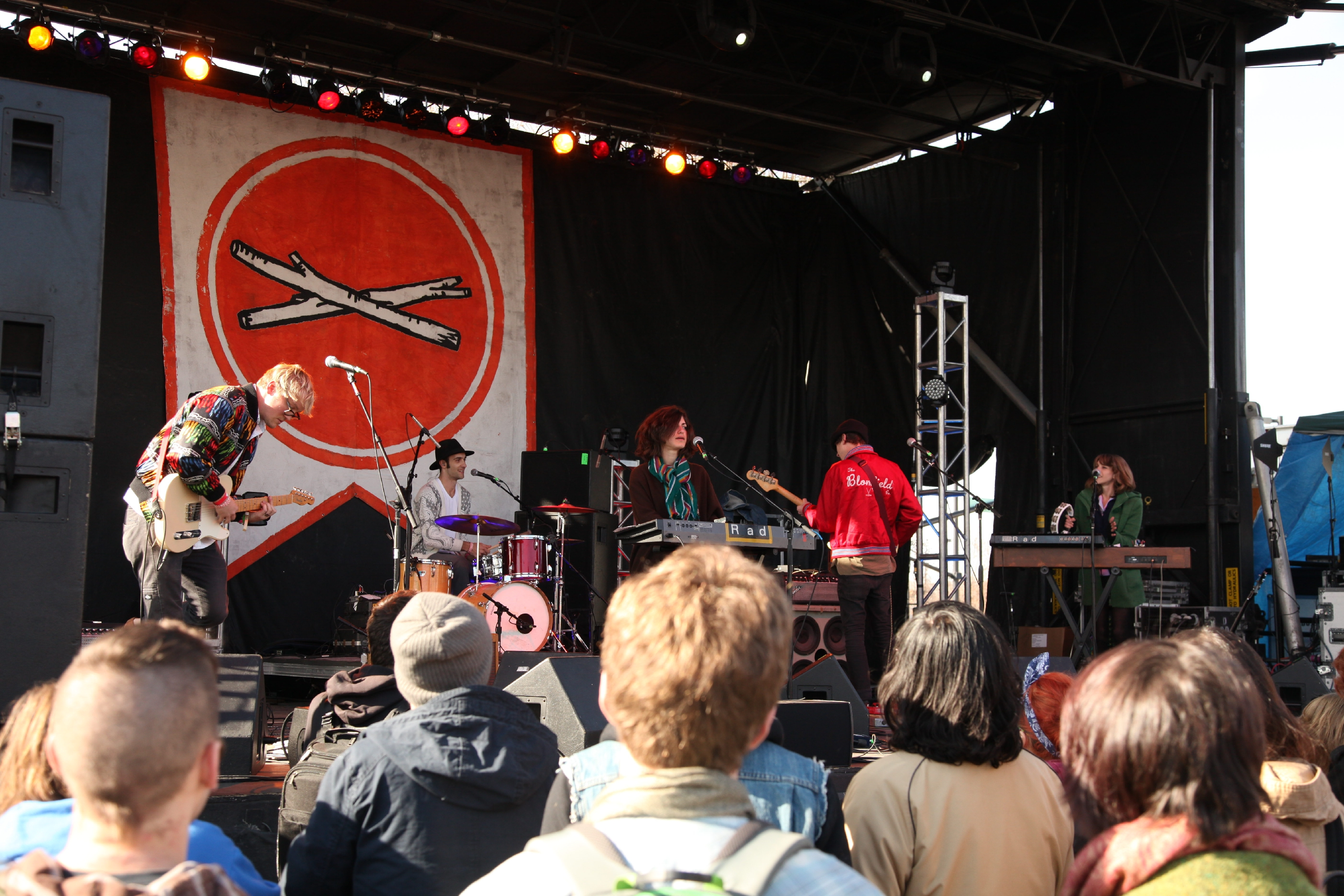 Radiation City on stage, March 23, 2013